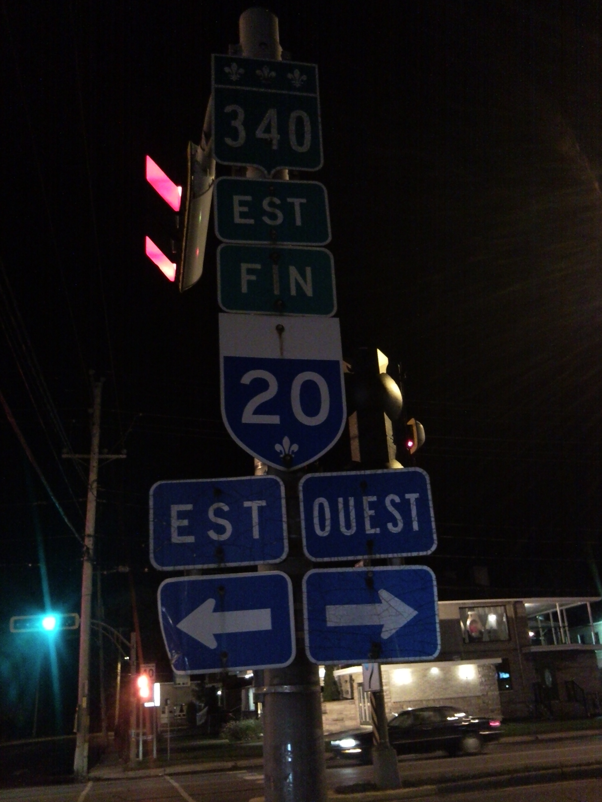 Eastern terminal of Quebec Route 340 photographed in Vaudreuil-Dorion, Quebec, Canada.